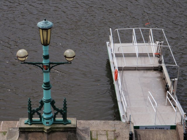 Lamp standard and ferry, Exeter Quay The lamp standard "was taken from the six that were located on the 1905 Exe bridge. They were cast by Macfarlanes of Glasgow. The lamp standards were removed from the old Exe Bridge in 1973, and these two painted in the city's official colours and installed on the quayside in 1983." . Butt's Ferry costs 20p to cross the river. It needs to be a fairly modest charge as, for the last ten years, Cricklepit Bridge, which is about 150 metres upstream, has allowed pedestrians to cross the river without a fee. According to the same source, there has been a ferry here since at least 1641, but it required a public enquiry to retain it in 1973. The ferry is operated by pulling it along a cable across the river. The view is from above the sandstone cliff alongside the Quay, from the lawn in front of Colleton Crescent.